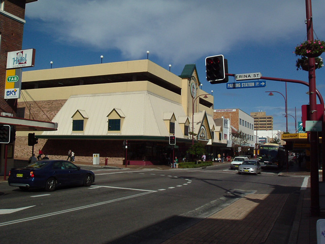 Photograph depicting the City of Gosford in New South Wales, Australia. Imperial shopping centre is on the far corner and the Gosford Council Chambers is the tall sandstone colored 'tower' building in the background towards the right hand side. A new Red Bus Service bus with local radio Sea FM full-bus advertisement is seen on the right.